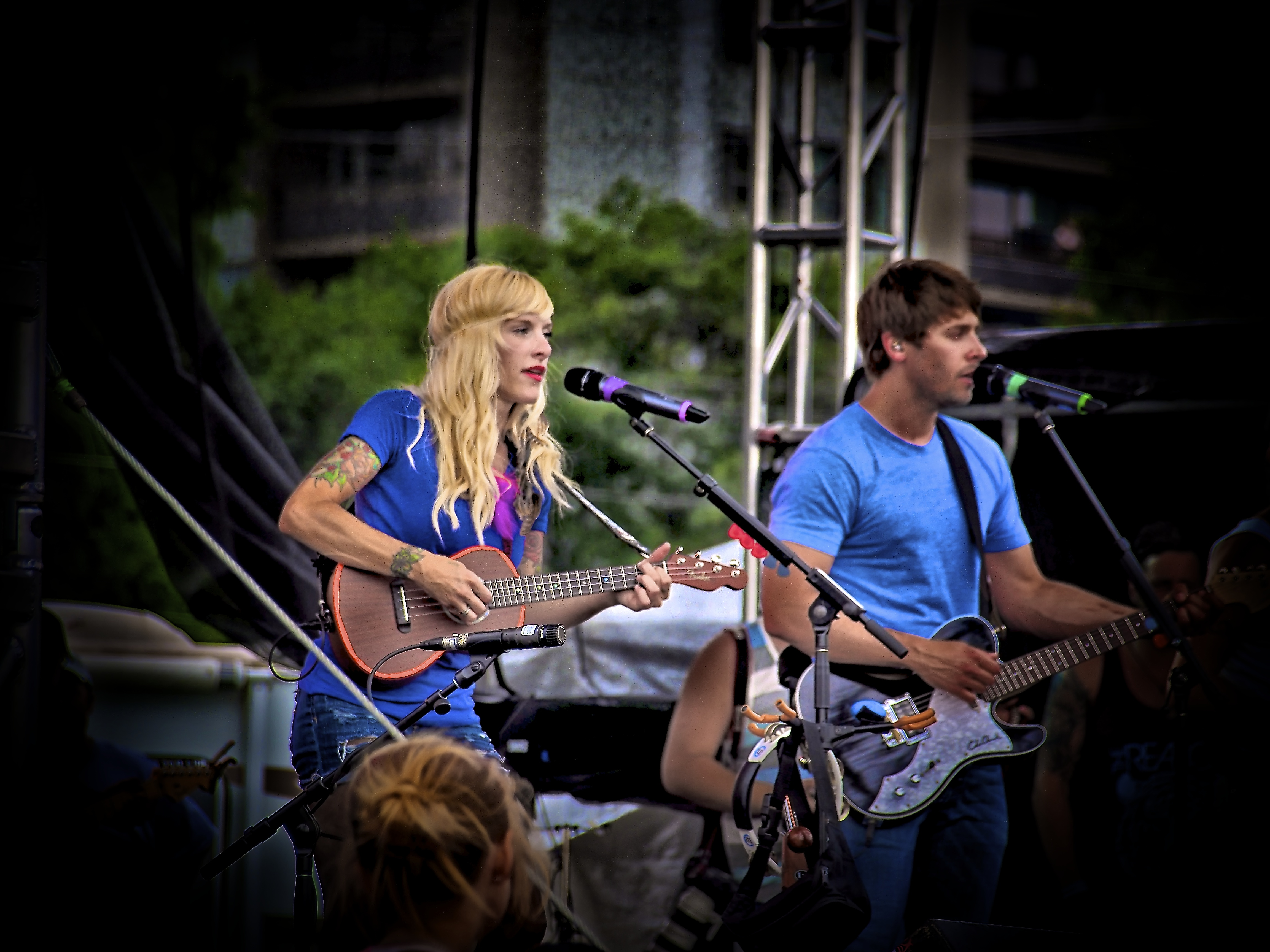 Sarah & Marshall of Walk Off The Earth